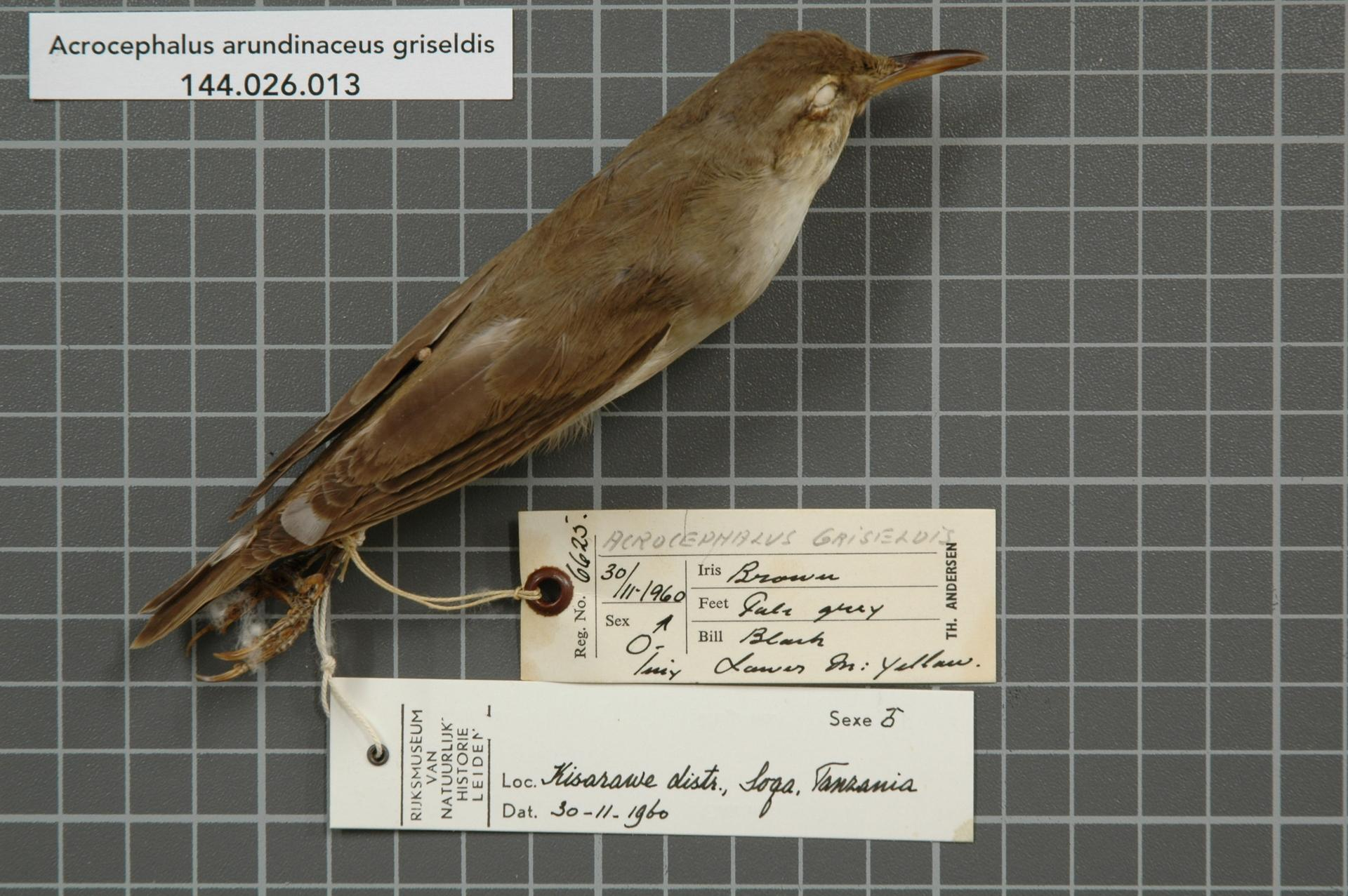 Acrocephalus arundinaceus griseldis (Hartlaub, 1891)